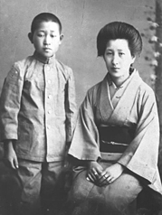 Kōnosuke Matsushita at age 10 or 11[a] and Mrs. Godai, the wife of the owner of the Godai Bicycle Store.[2] This is the oldest existing photo of Matsushita.[3]